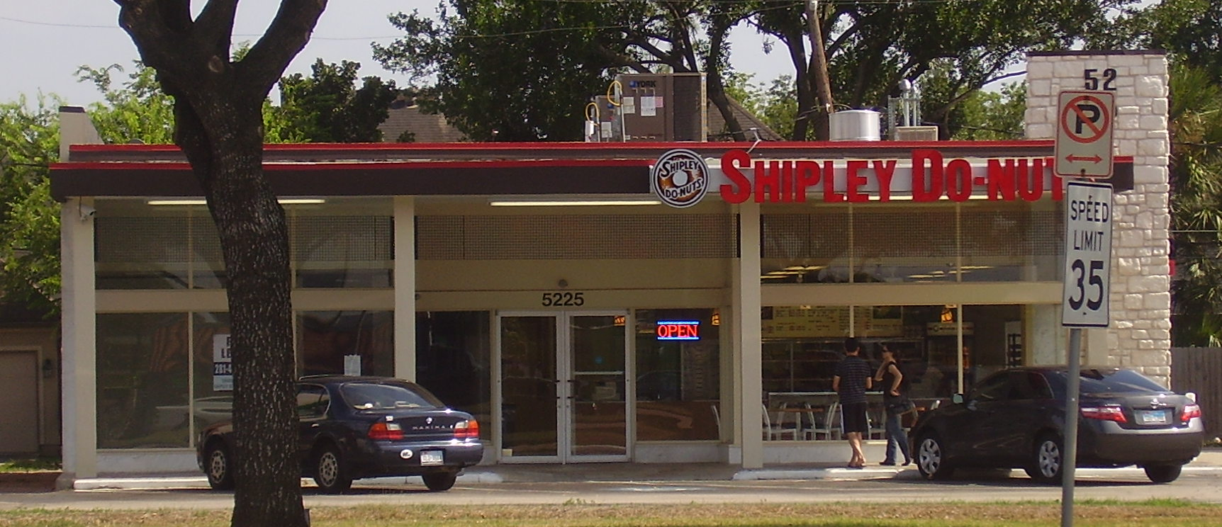 Shipley Do-Nuts store - 5225 Bellaire Houston, TX 77401